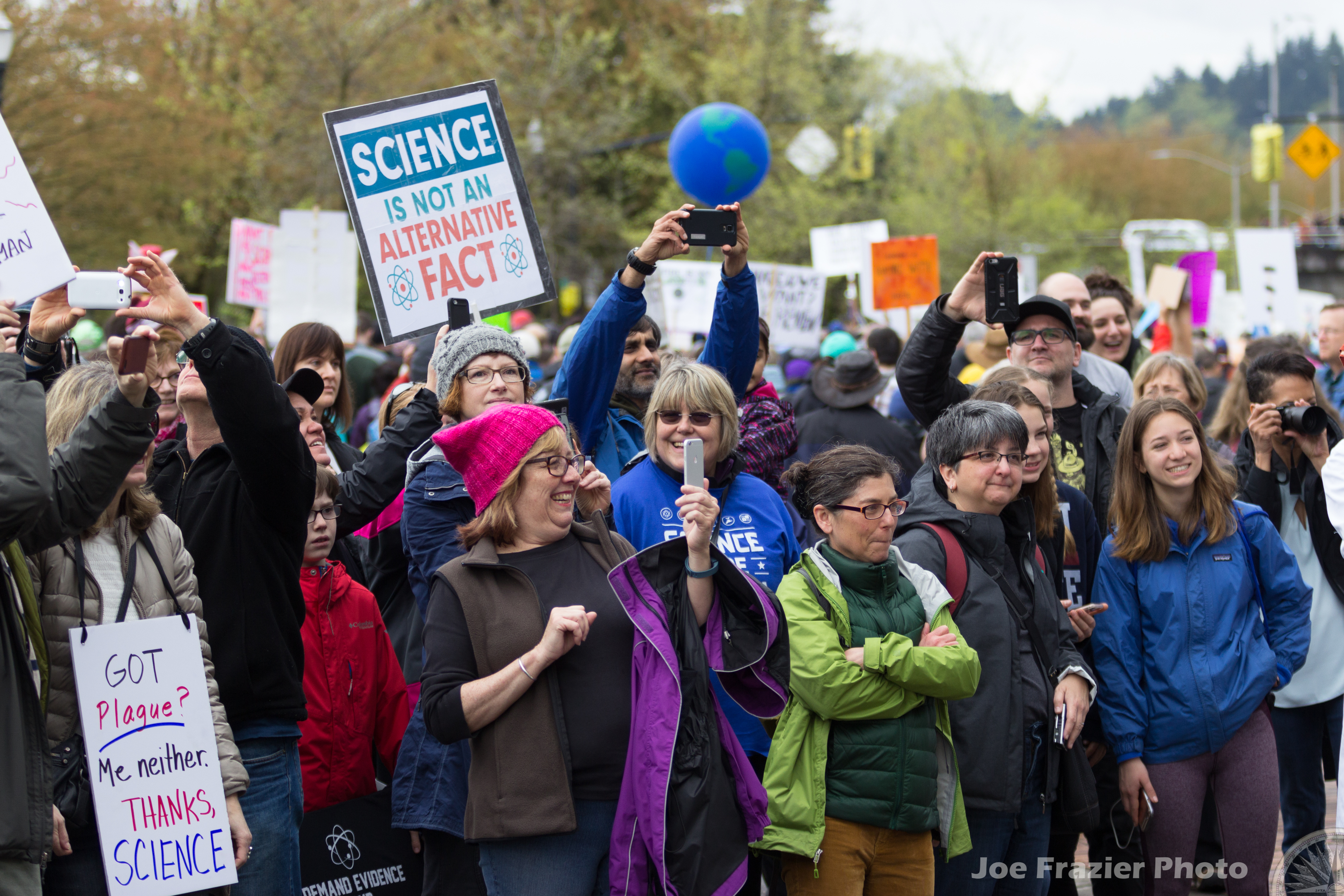 March For Science PDX Portland, OR April 22, 2017